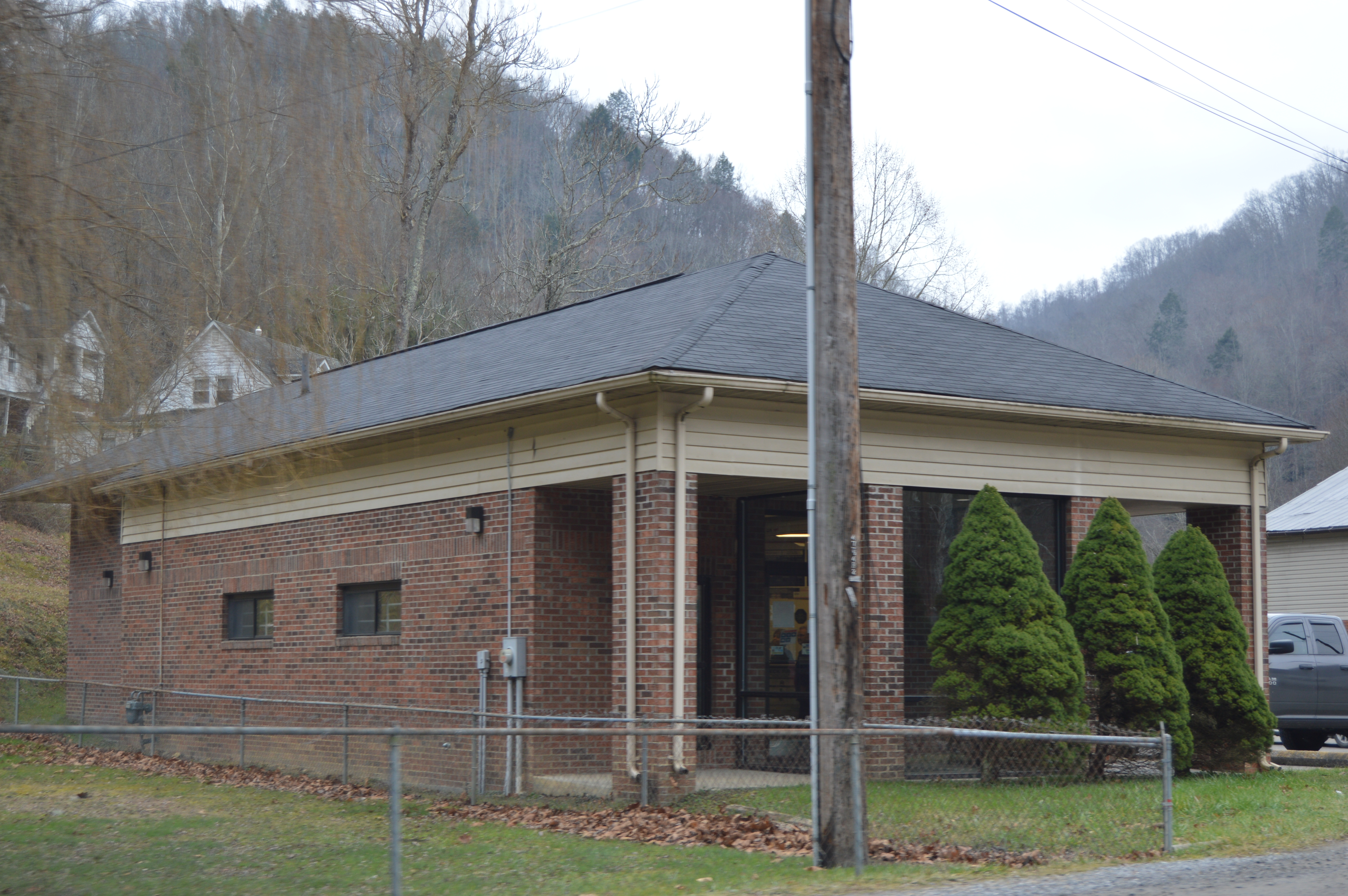 Front and eastern side of the Bud post office, located on West Virginia Route 10 at Bud in Wyoming County, West Virginia, United States.